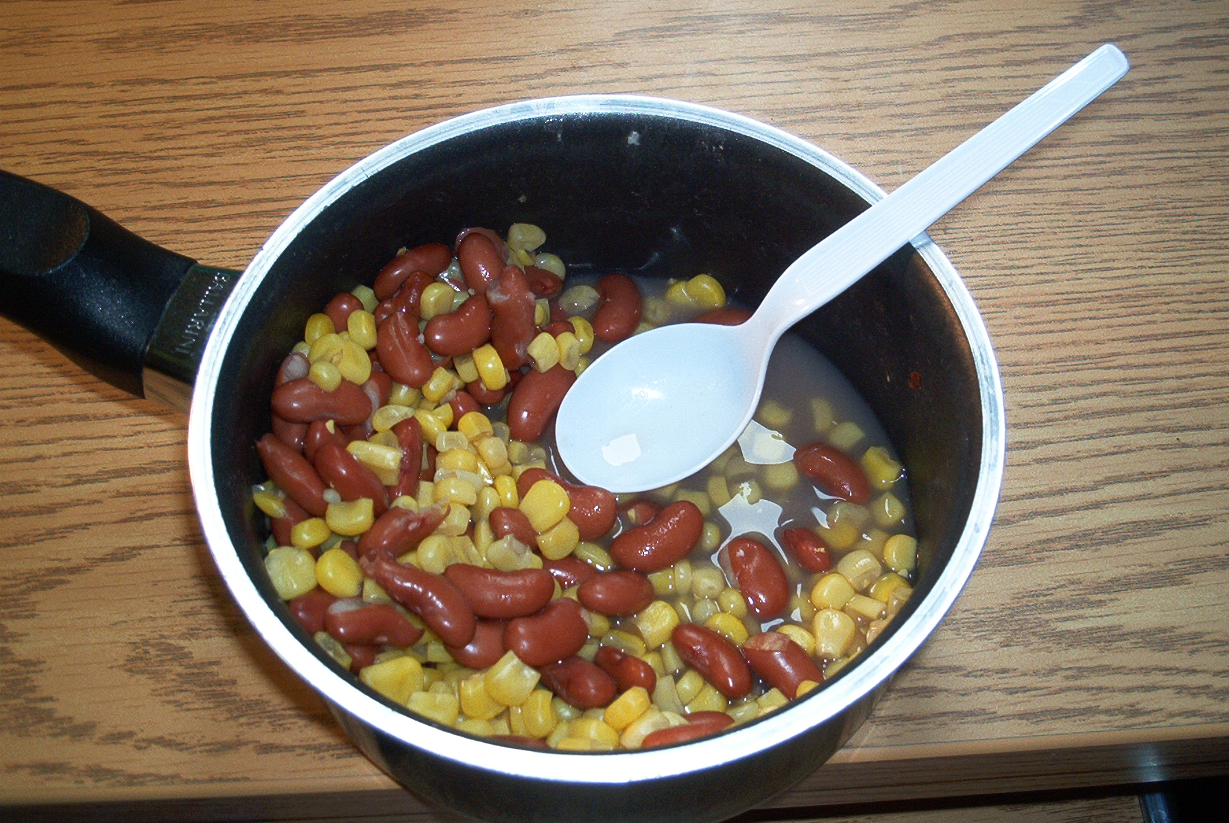 A succotash, prepared with kidney beans. Cooked and photographed by me.